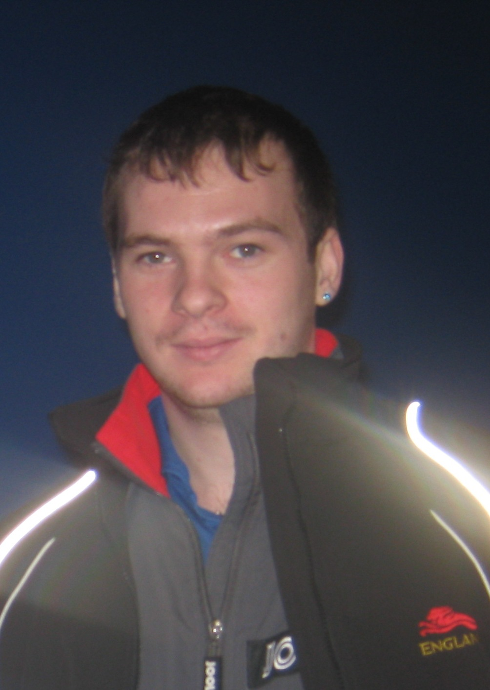 Paul Drinkhall in English Open 2011